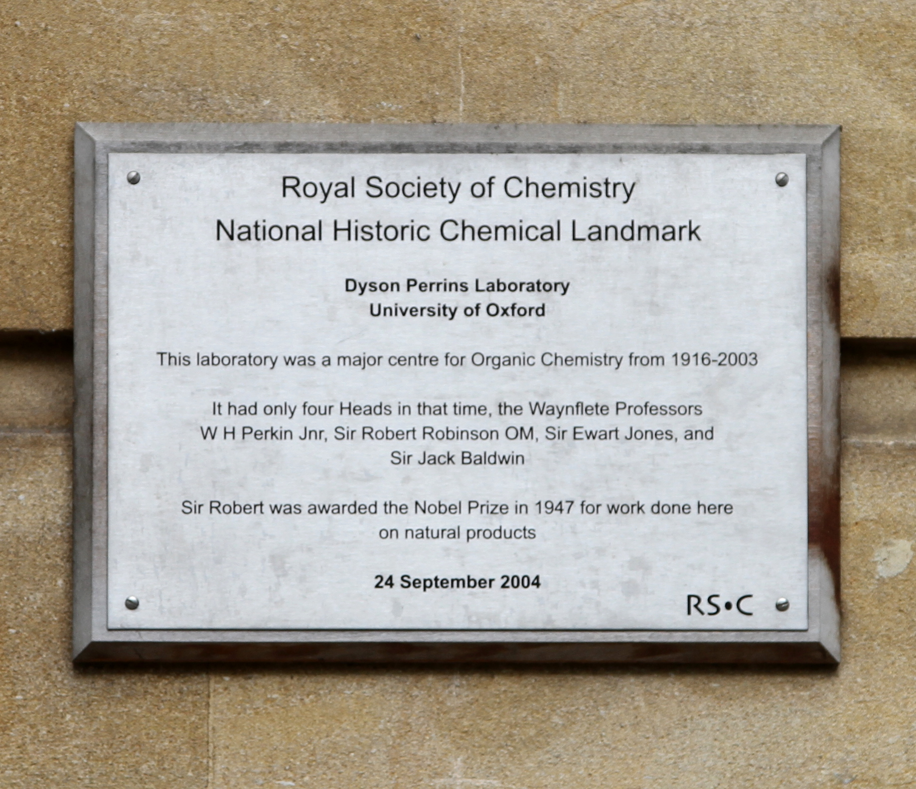 Royal Society of Chemistry plaque on the wall of the Dyson Perrins Laboratory, University of Oxford.